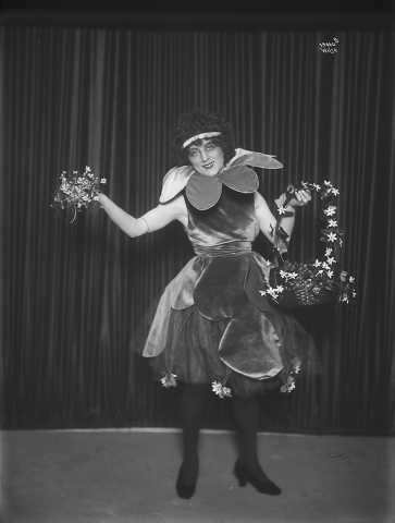 Norwegian revue artist Lalla Carlsen performing a cabaret at the Chat Noir theatre in Oslo.